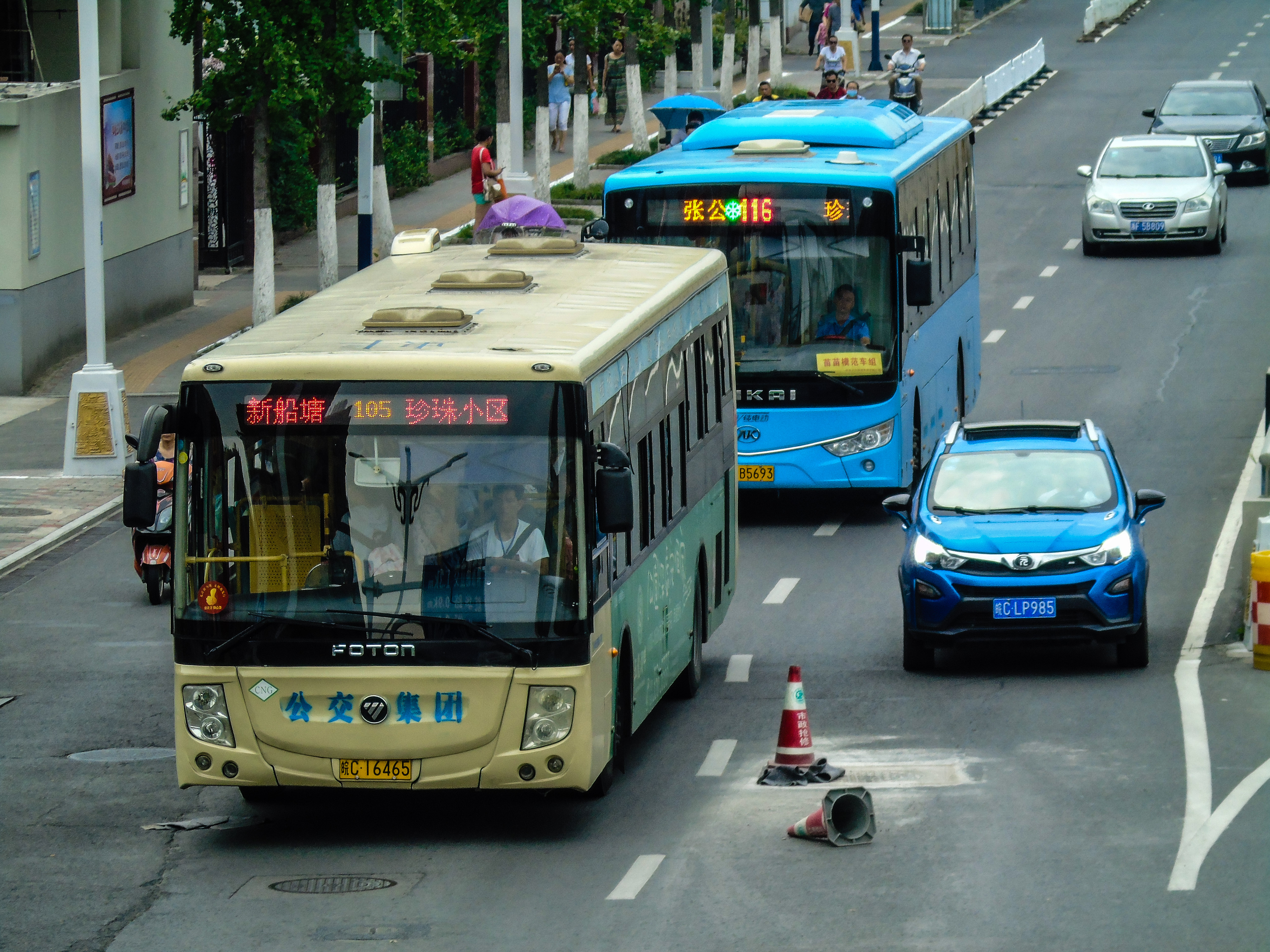 Bengbu Bus No.105 and No.116 on Shengli Rd.